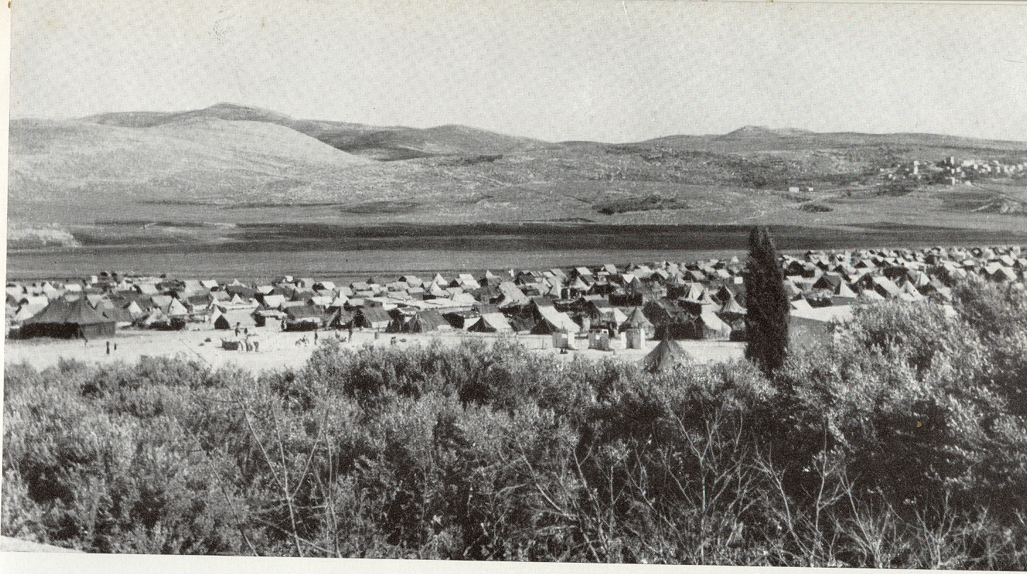 Balata refugee Camp. Circa 1950. Picture caption: "Arabiskt flytinglager nara Sikem."